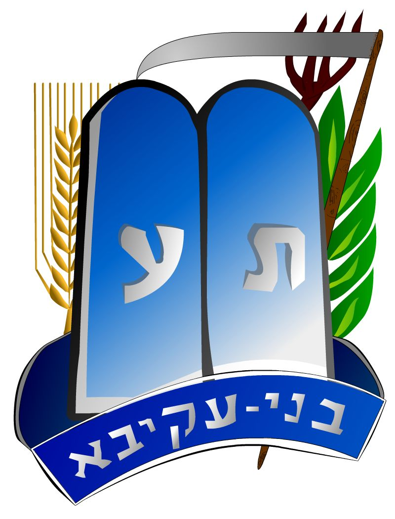 A Modern version of the Bnei Akiva Logo (semel)